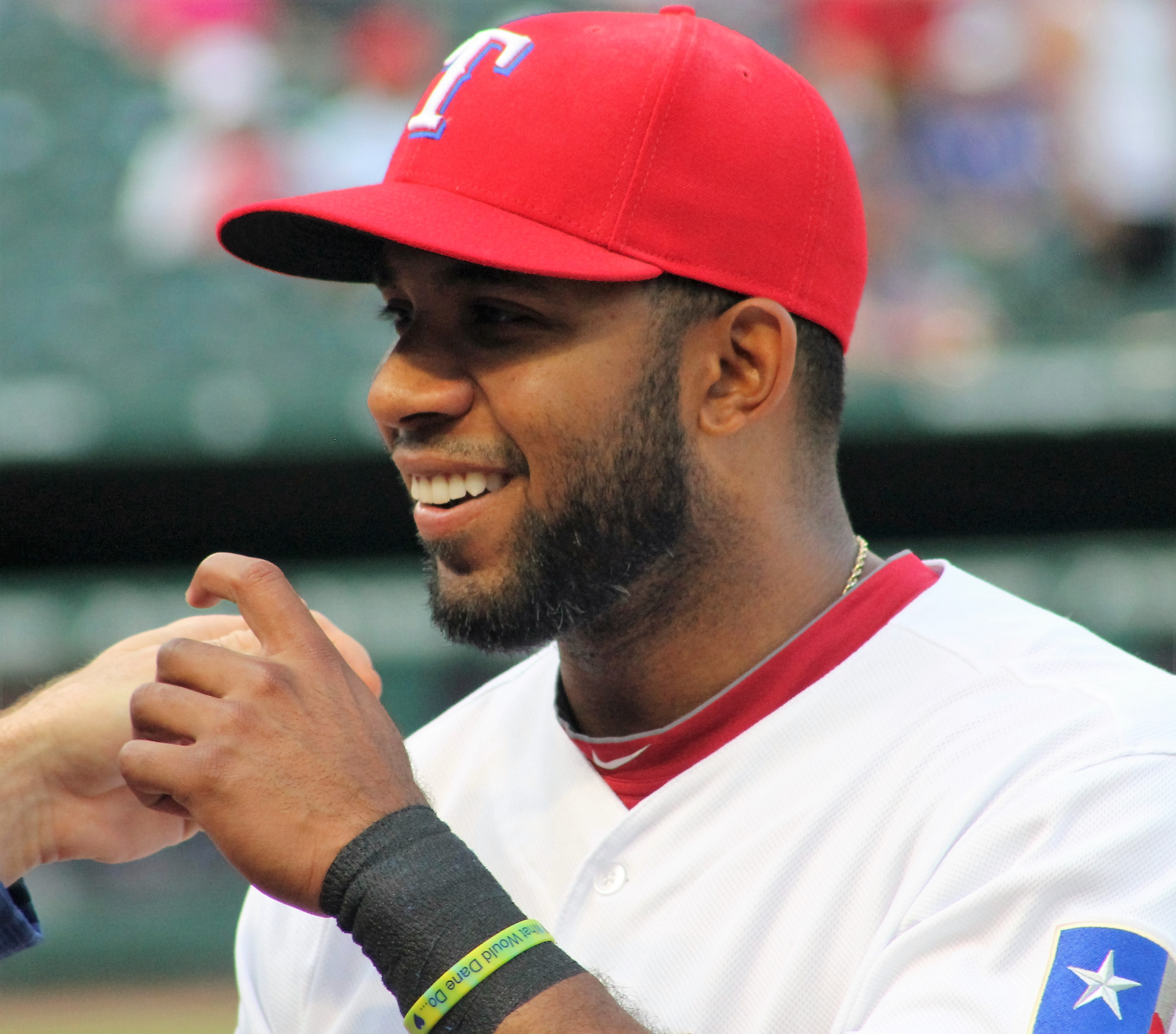 Professional baseball player Elvis Andrus during a game in Texas in May 2016.